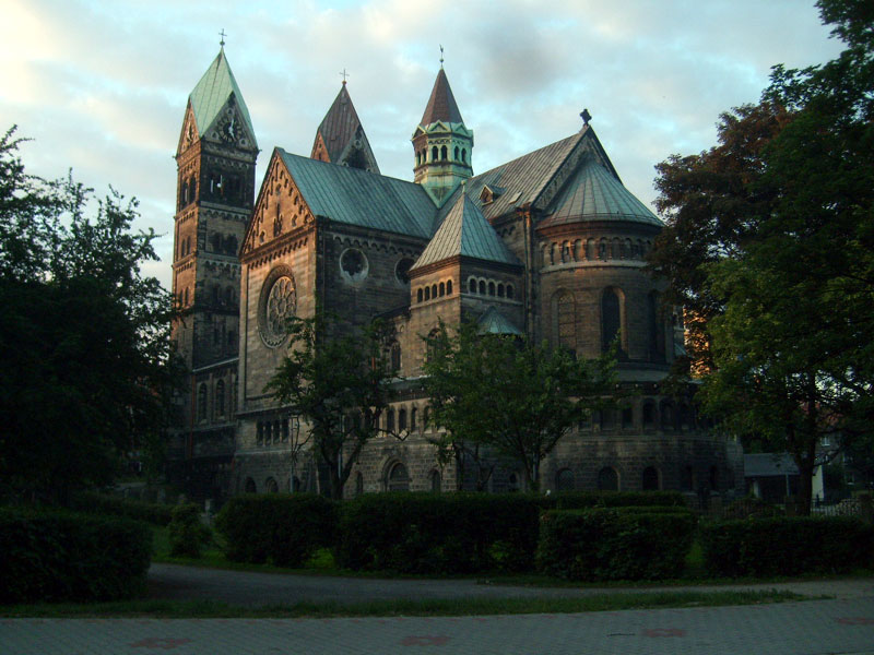 St. Jack Church in Bytom